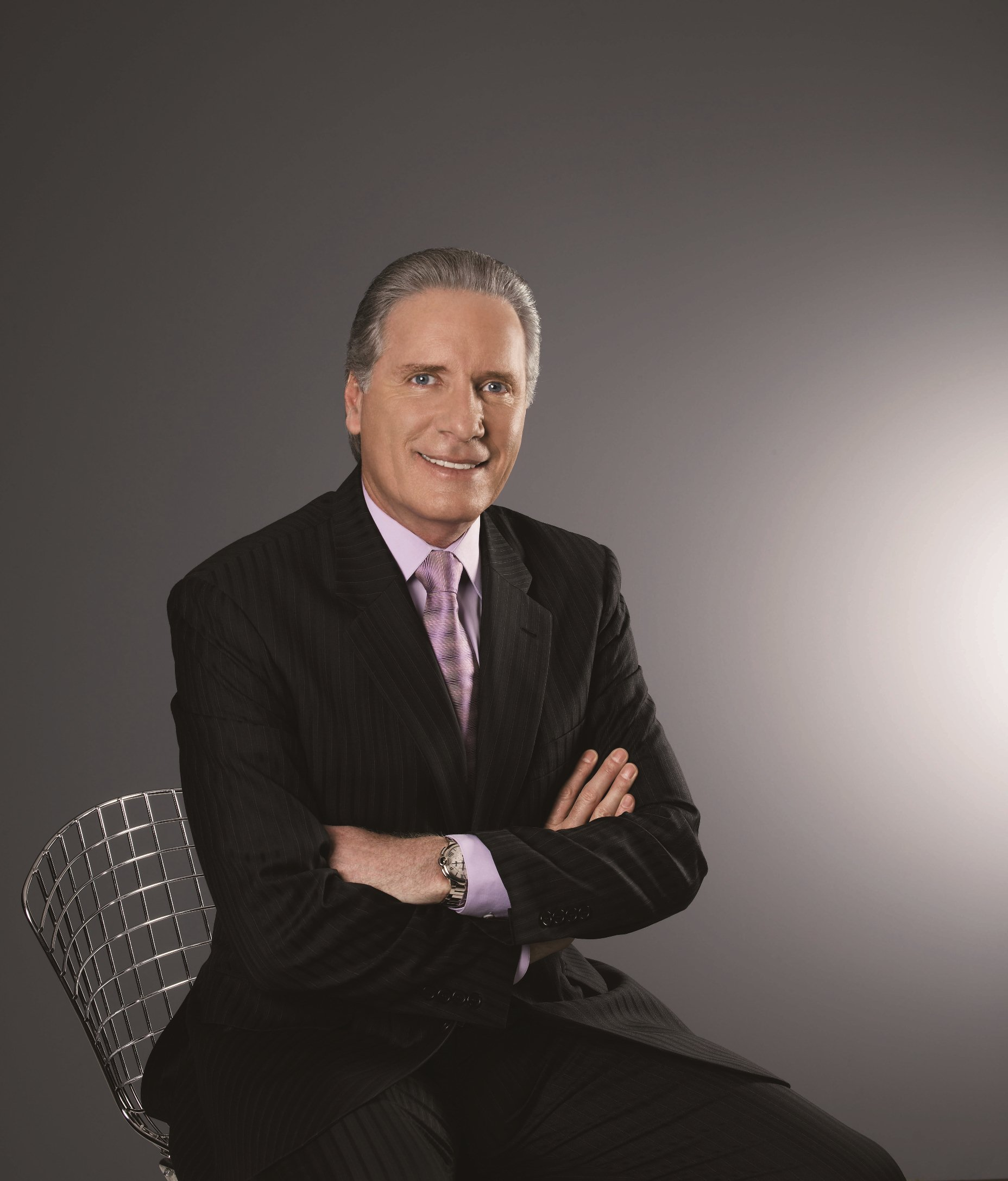 Profile Picture Roberto Justus - Official